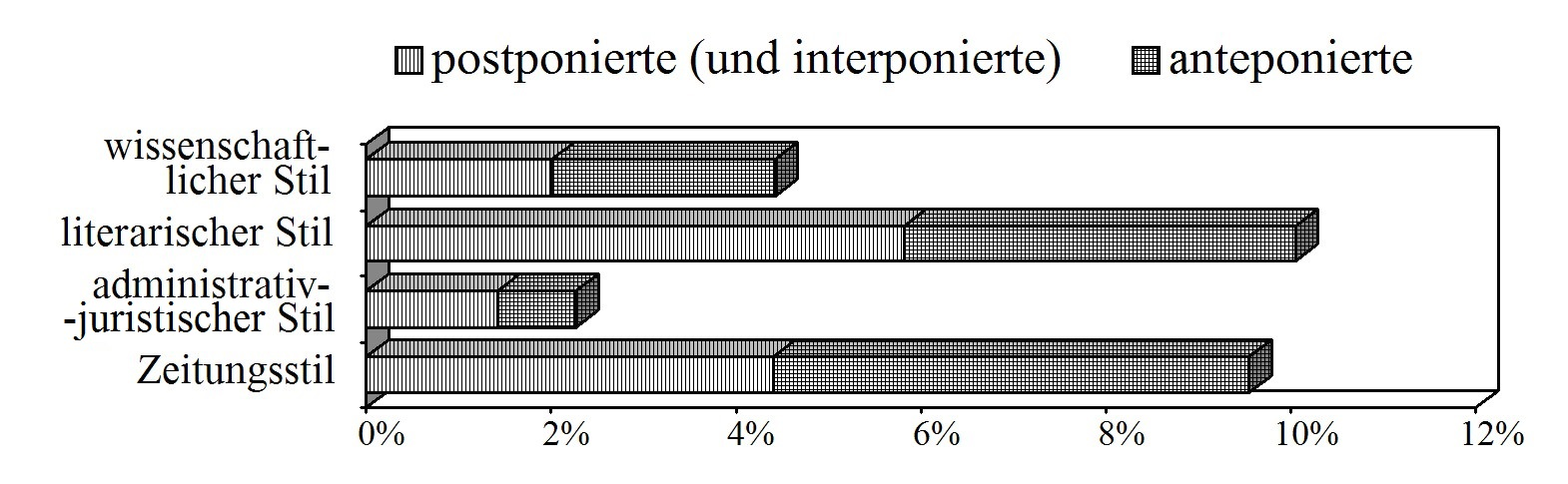 Frequency of free relative clauses from Snježana Kordićʼs book Relativna rečenica, Zagreb 1995, diagram on p. 218 or its German translation: Der Relativsatz im Serbokroatischen, Munich 1999, diagram on p. 200